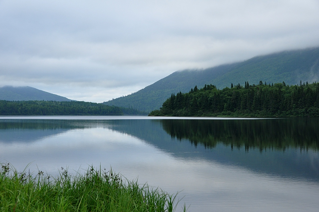 Big Nictau Lake, Mount Carleton Provincial Park, New Brunswick, Canada